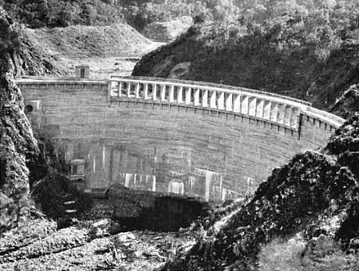 The San Clemente Dam near Monterey, California, United States.